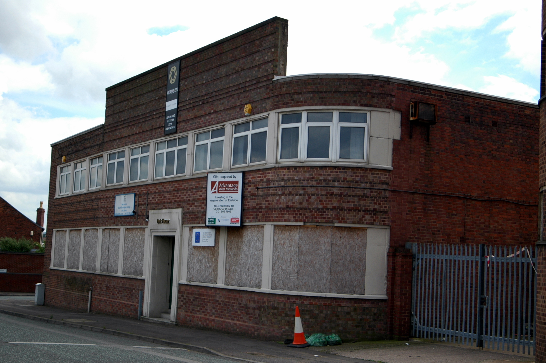 This building, with others, has been bought using a Compulsory Purchase Order by the council so that the entire area can be redeveloped in a development known as Ventureast.